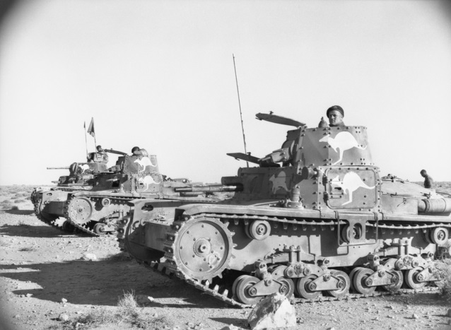 Australian War Memorial (AWM) catalog number 005042. Captured Italian Armato M13/40 (far left) and M11/39 (middle and right) tanks being used by the Australian 6th Division Cavalry Regiment during the capture of Tobruk.